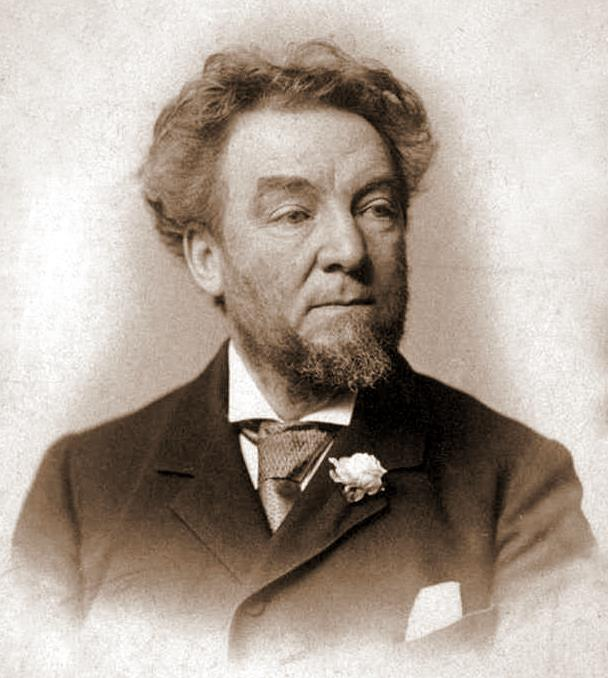 Edward Robeson Taylor, Mayor of San Francisco. Originally inscribed: "To Wm. Keith, from Edward R. Taylor, June 23, 1894."